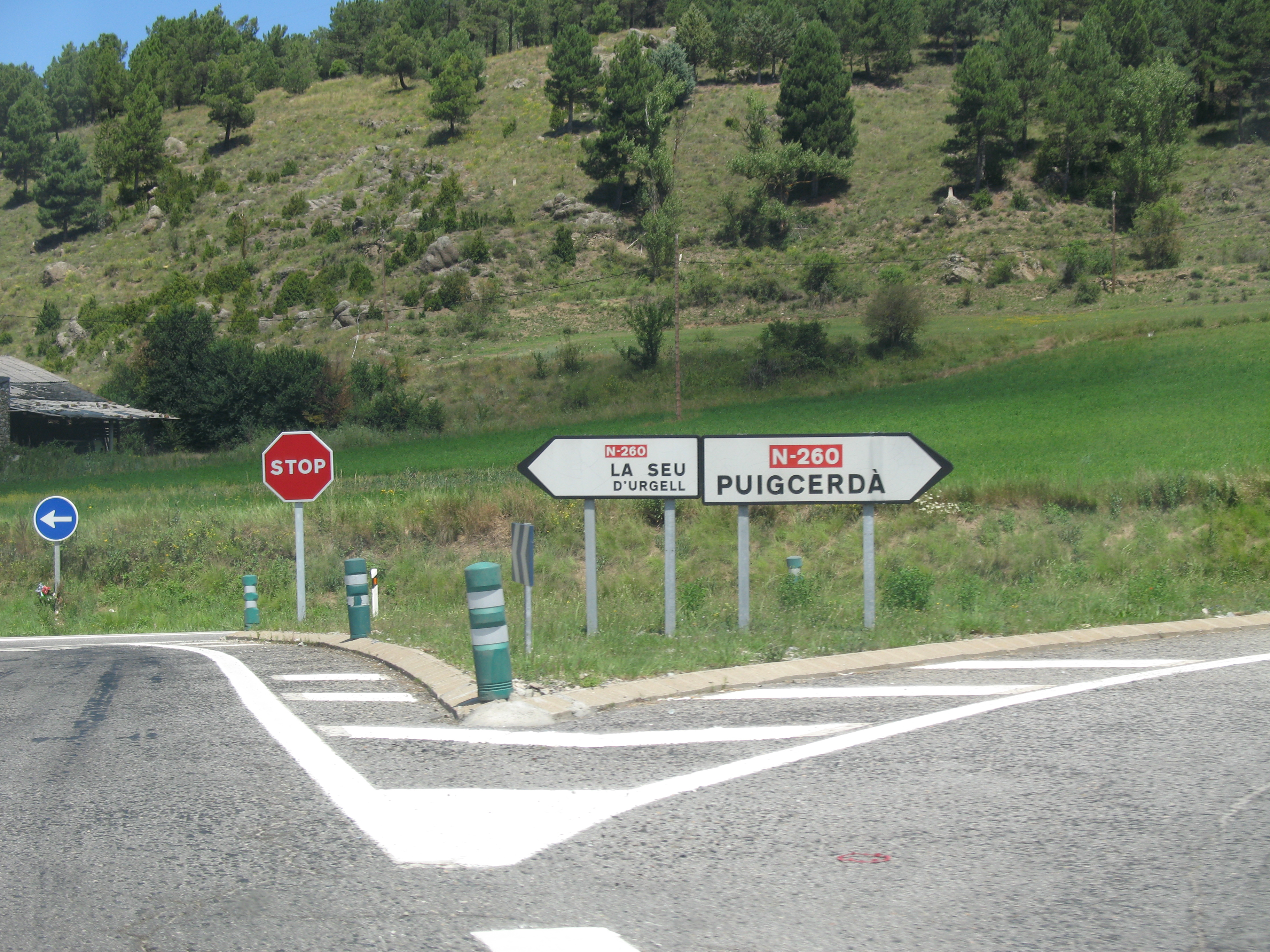 Ending of the C-16 road in Cerdagne.